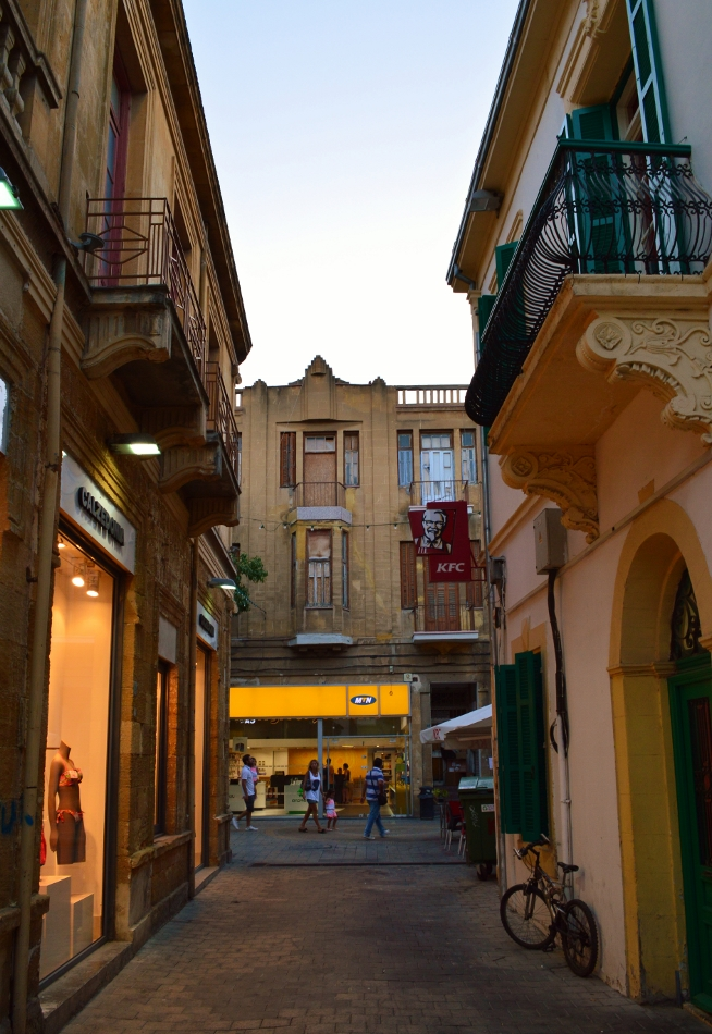 Socratous Street old Nicosia view towards Ledra Street Republic of Cyprus